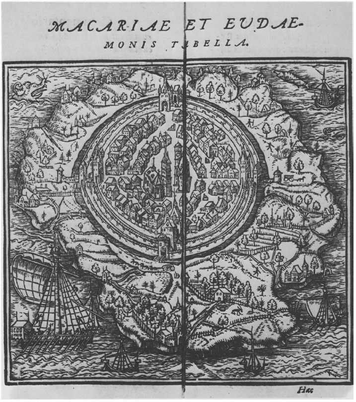 This is the map "Macariae Eudaemonis Tabella" designed by Johannes Oporinus and engraved for the book De Eudaemonensium republica Commentariolus written by Caspar Stiblin published in 1555